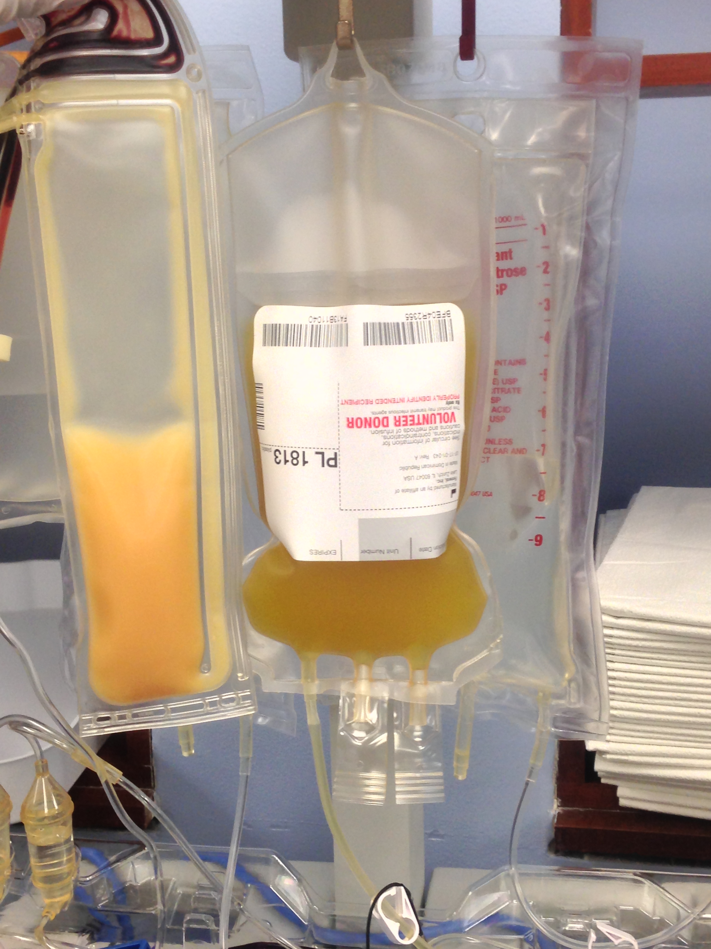 A donation of plasma and platelets at the American Red Cross in Boston, MA. Machine is a Fenwal Amicus separator. Other information Taken at the Boston American Red Cross, 274 Tremont St Boston, MA